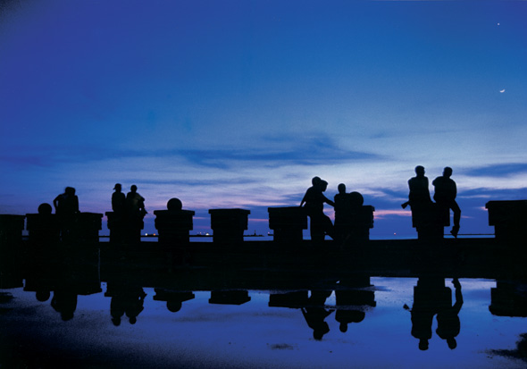 Figures in silhouette during twilight.